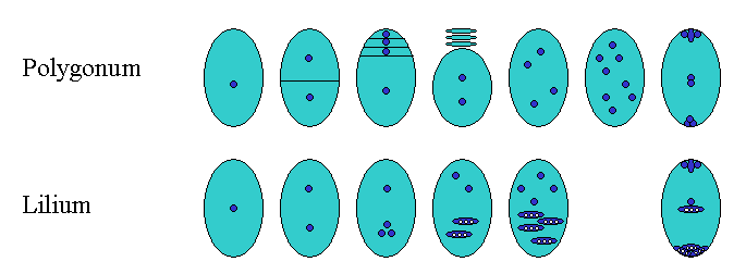 Embryo sac formation of Polygonum and Lilium, following P. Maheshwari.